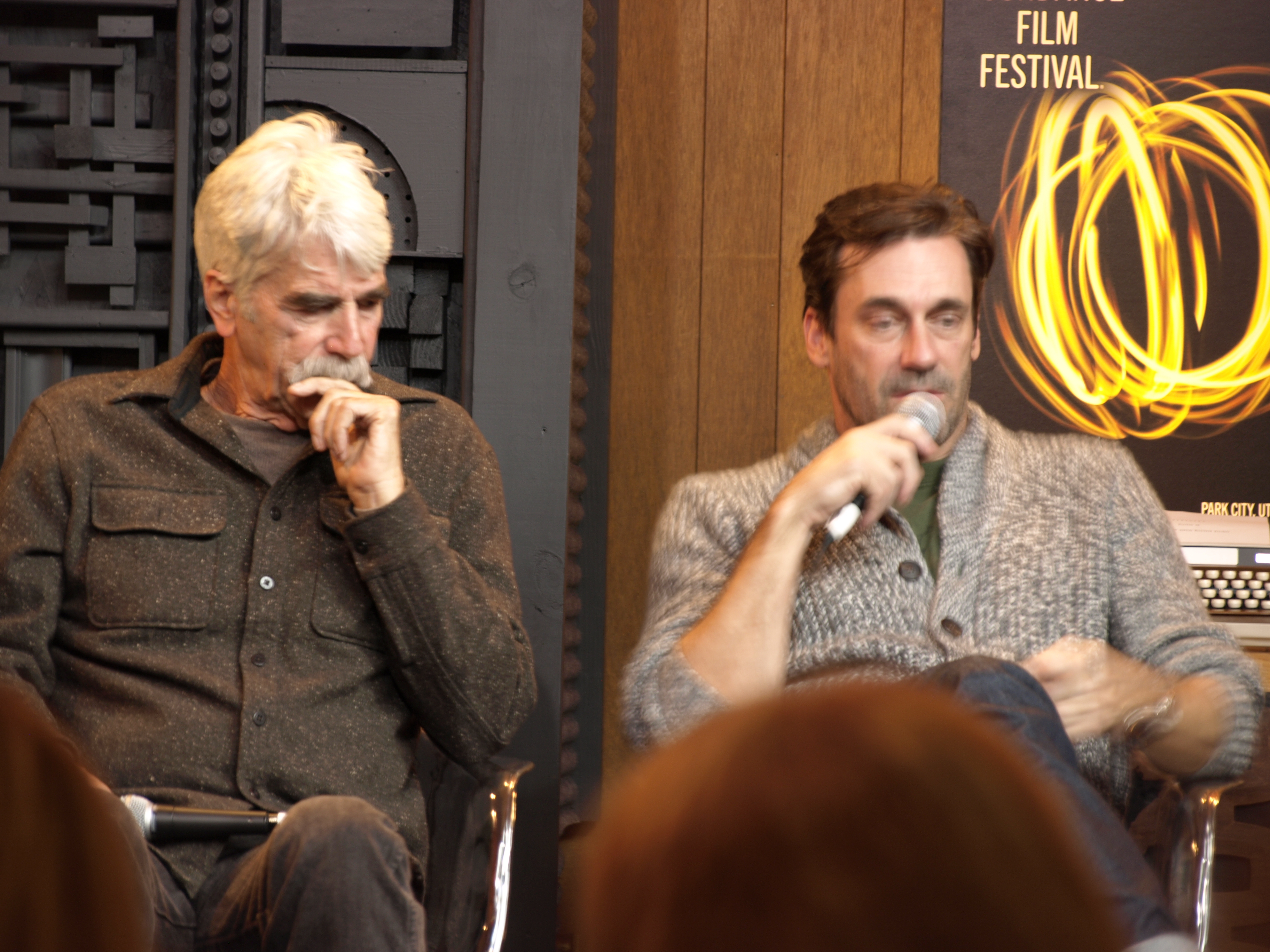 Cinema Cafe at Sundance 2017, Park City UT